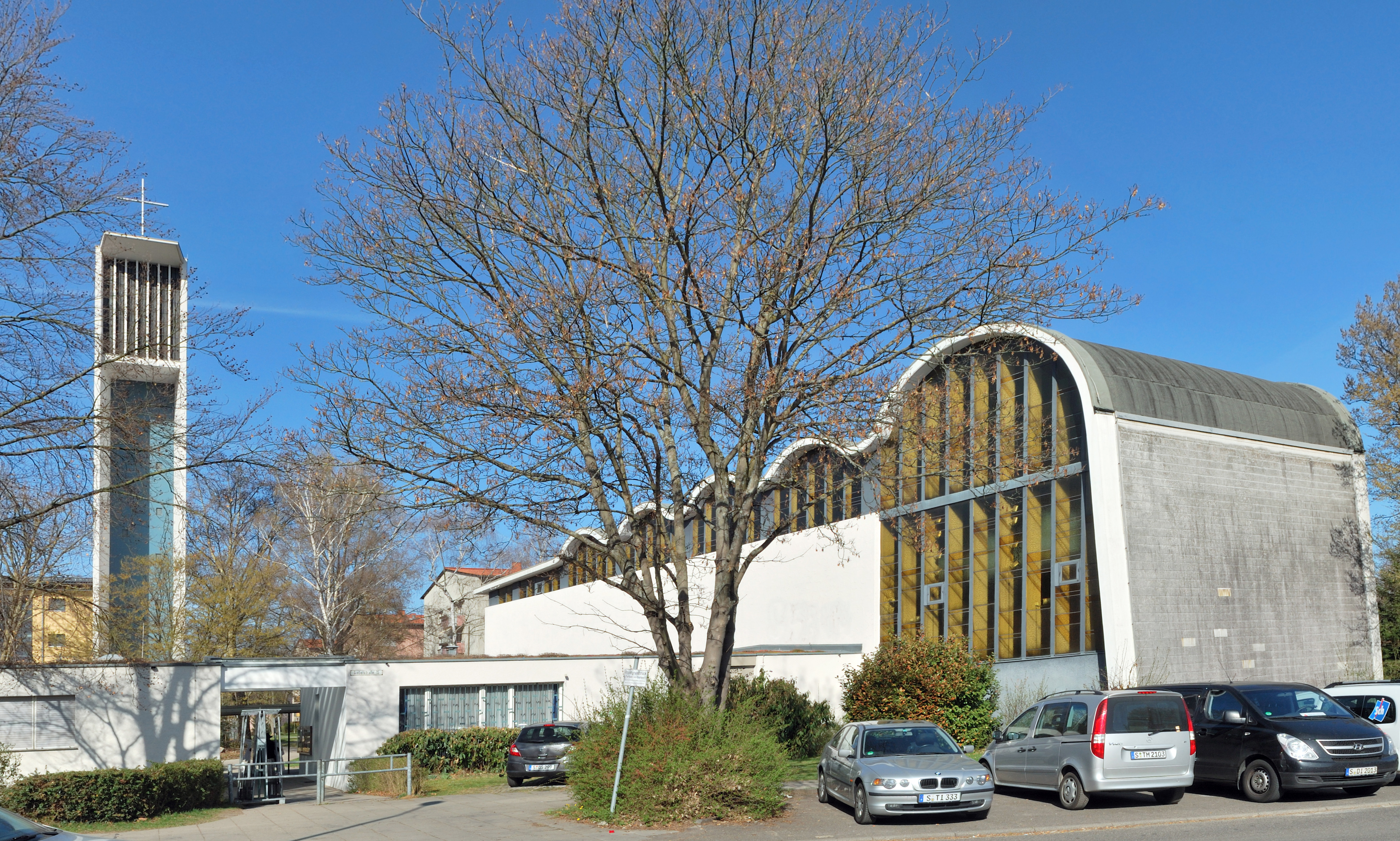 The Catholic Salvator Church in Giebel, a district of Stuttgart in the German Federal State Baden-Württemberg.